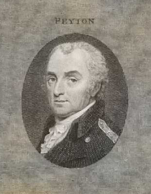 Victors of the Nile (with 15 cameo portraits of naval officers) (proof) As Nelson said after the Battle of the Nile in 1798, ‘Victory is not a name strong enough for such a scene’. His captains are all commemorated in this celebratory engraving published five years later; Thomas Foley, Samuel Hood, Sir James Saumarez, David Gould, Ralph Miller, Sir Edward Berry, Thomas Louis, John Peyton, Henry Darby, George Westcott (killed in the battle), Thomas Thompson, Alexander Ball, Benjamin Hallowell, Thomas Troubridge and Thomas Hardy. Nelson was made Baron Nelson of the Nile, and adopted the motto ‘Palmam qui meruit ferat’ (Let he who has earned it bear the Palm). Victors of the Nile (with 15 cameo portraits of naval officers) (proof)